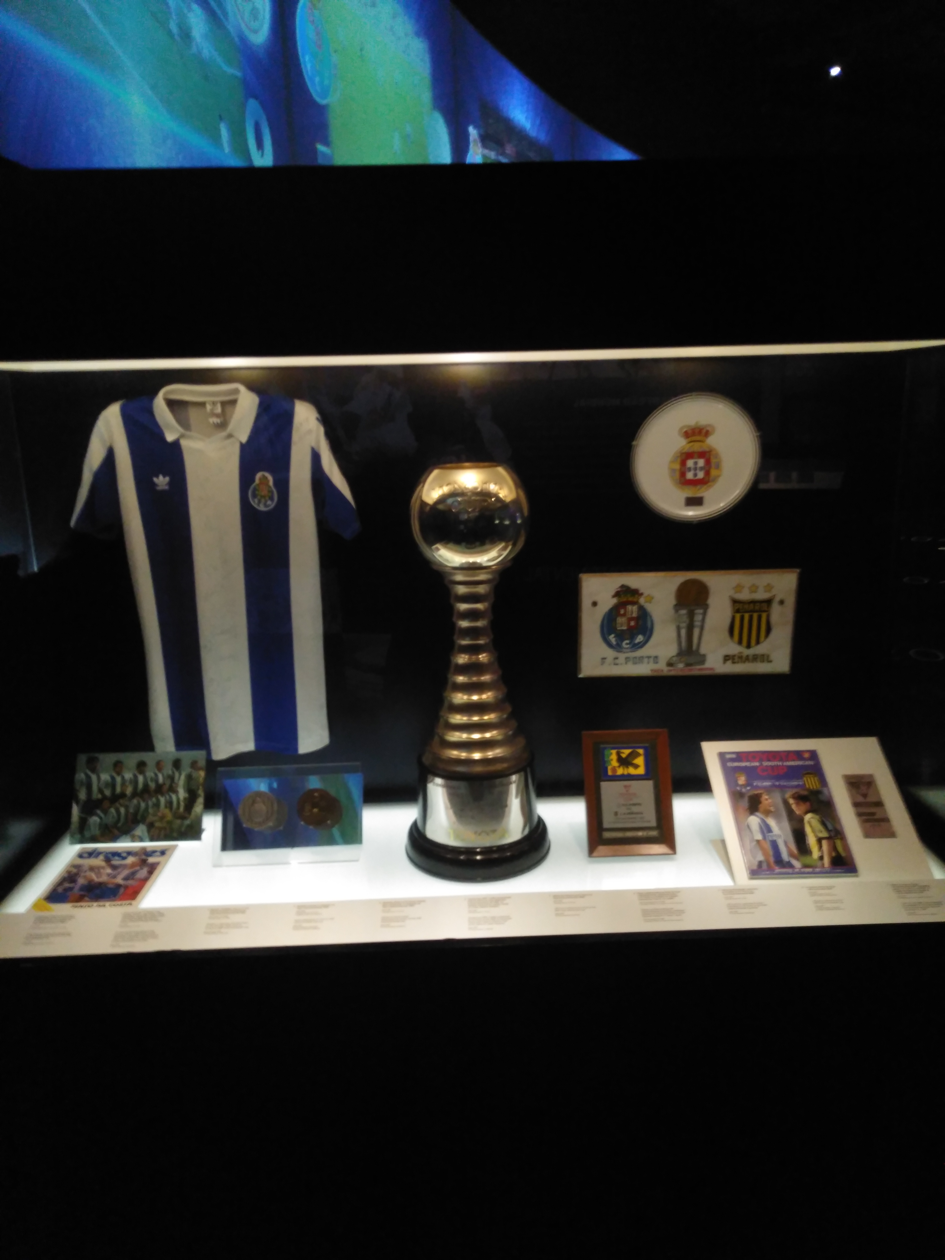 1987 Toyota Cup at Museu FC Porto